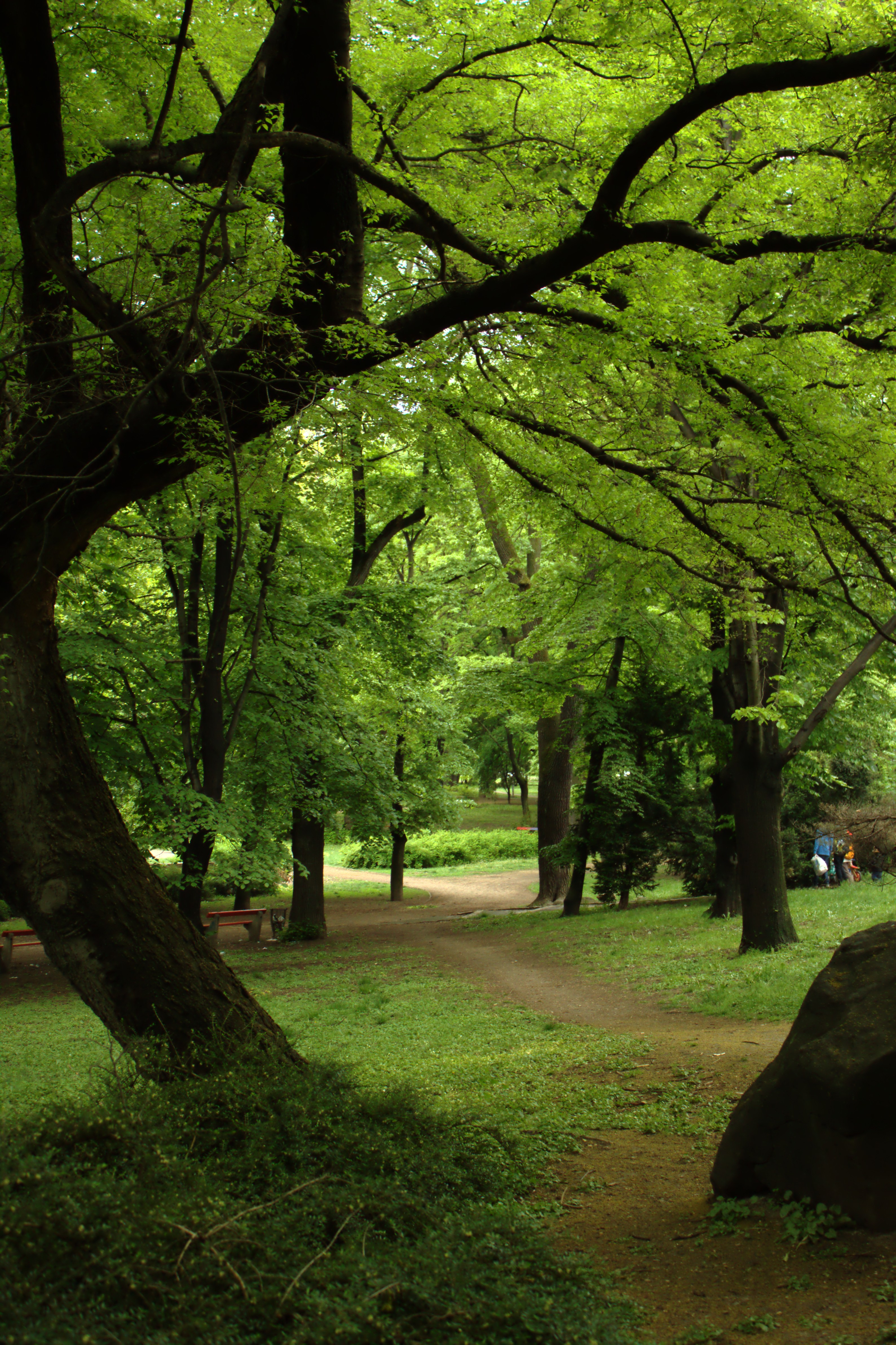 Spring in Városmajor park in Budapest, Hungary